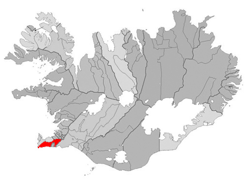 Based on Municipalities of Iceland.png.